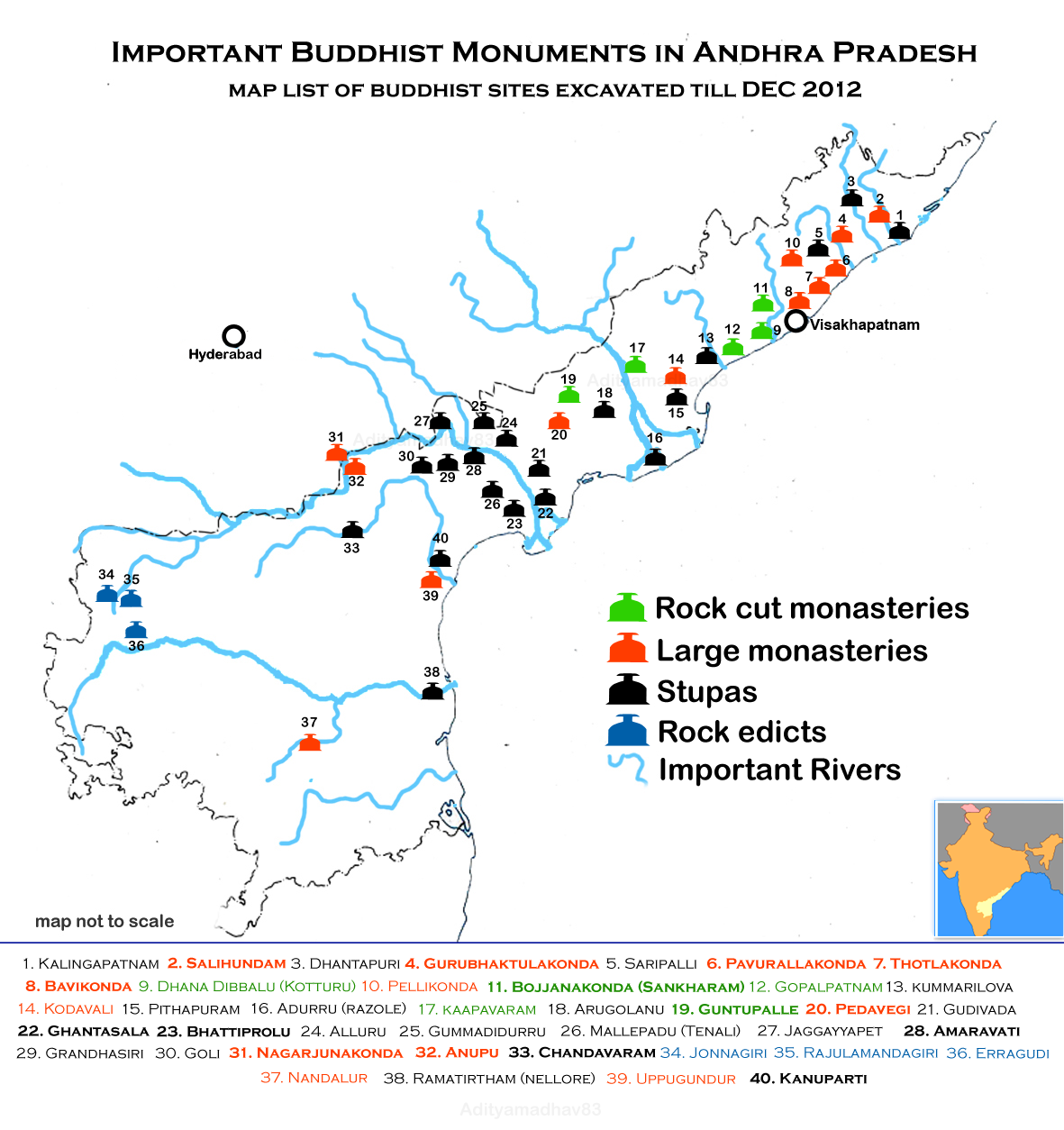 A map of Important Buddhist sites in Andhra Pradesh. (Excavated till Dec 2012) Note: The map is created for information and educational purposes. People using the map outside Wikipedia projects are requested to attribute it properly.